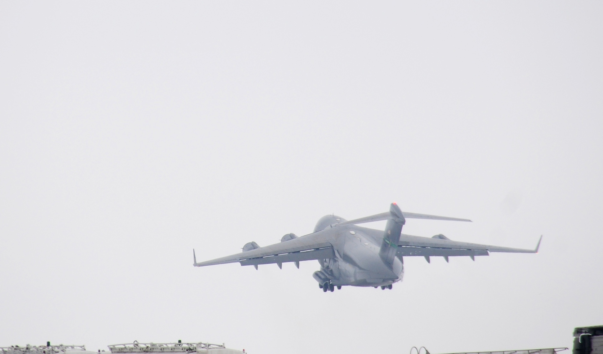 A C-17 transport plane operated by the 780th Expeditionary Airlift Squadron takes off from MK Air Base en route to Afghanistan Feb. 3. The massive cargo plane carried soldiers from the 2nd Brigade Combat Team, 101st Airborne Division (Air Assault) on the inaugural mission from MK to an operating area in Southwest Asia. (Photo by Staff Sgt. Warren W. Wright Jr., 21st TSC Public Affairs)